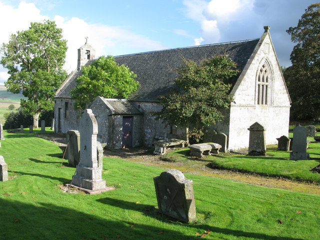 Former Walston Parish Church, Oggcastle Road, Walston